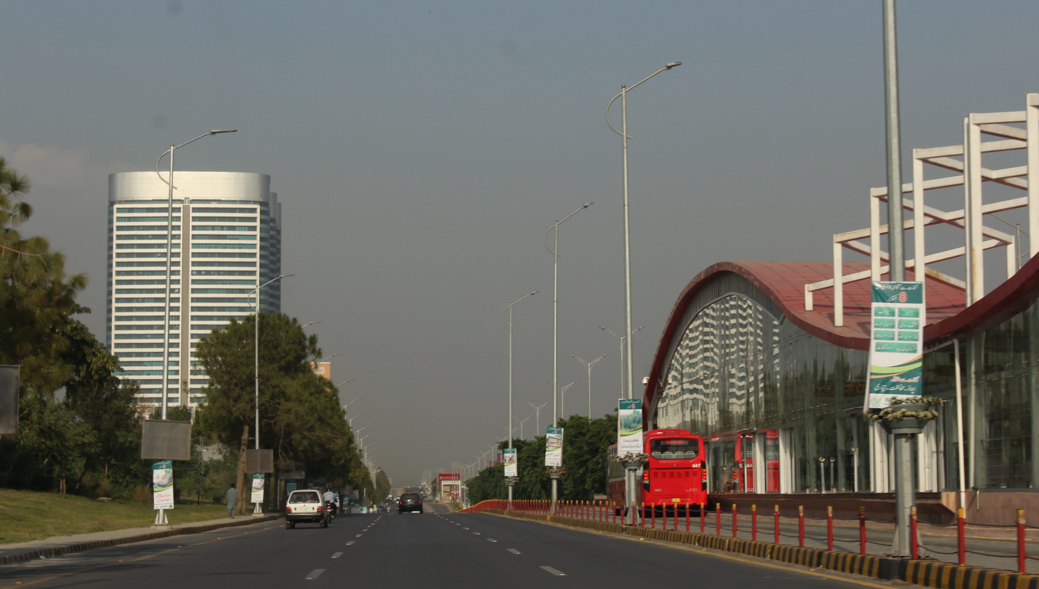 Islamabad Metro Bus , Centaurus